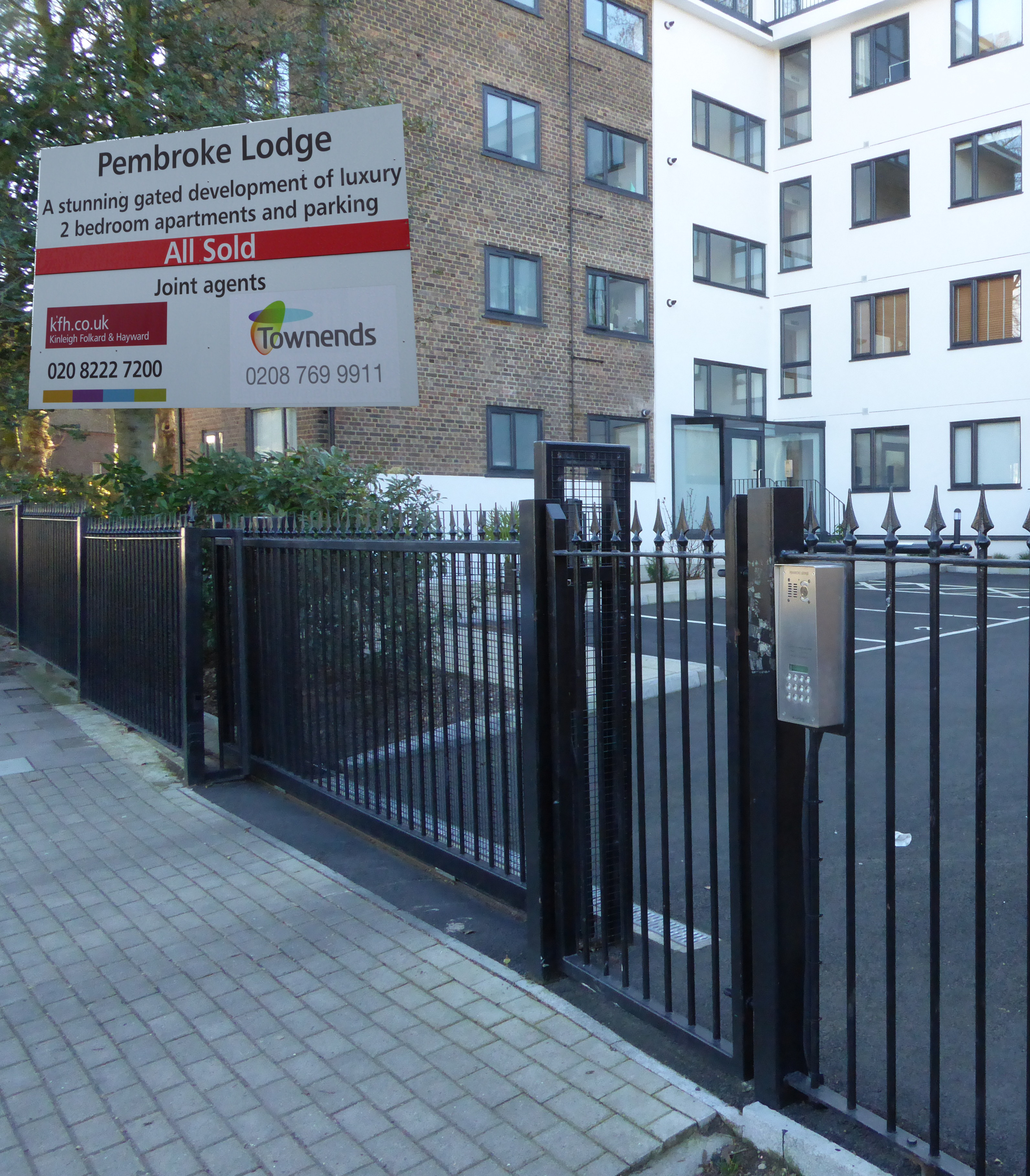 Example of multi-story block gated development which is replacing suburban houses with gardens in London. The block is located in Streatham 10 miles from Central London. In 2015 the price of 2 bed apartment in the development was £380,000